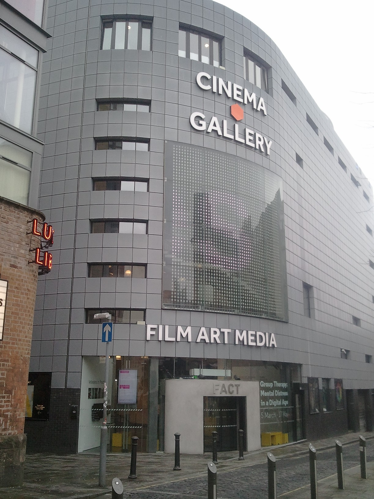 Foundation for Art and Creative Technology